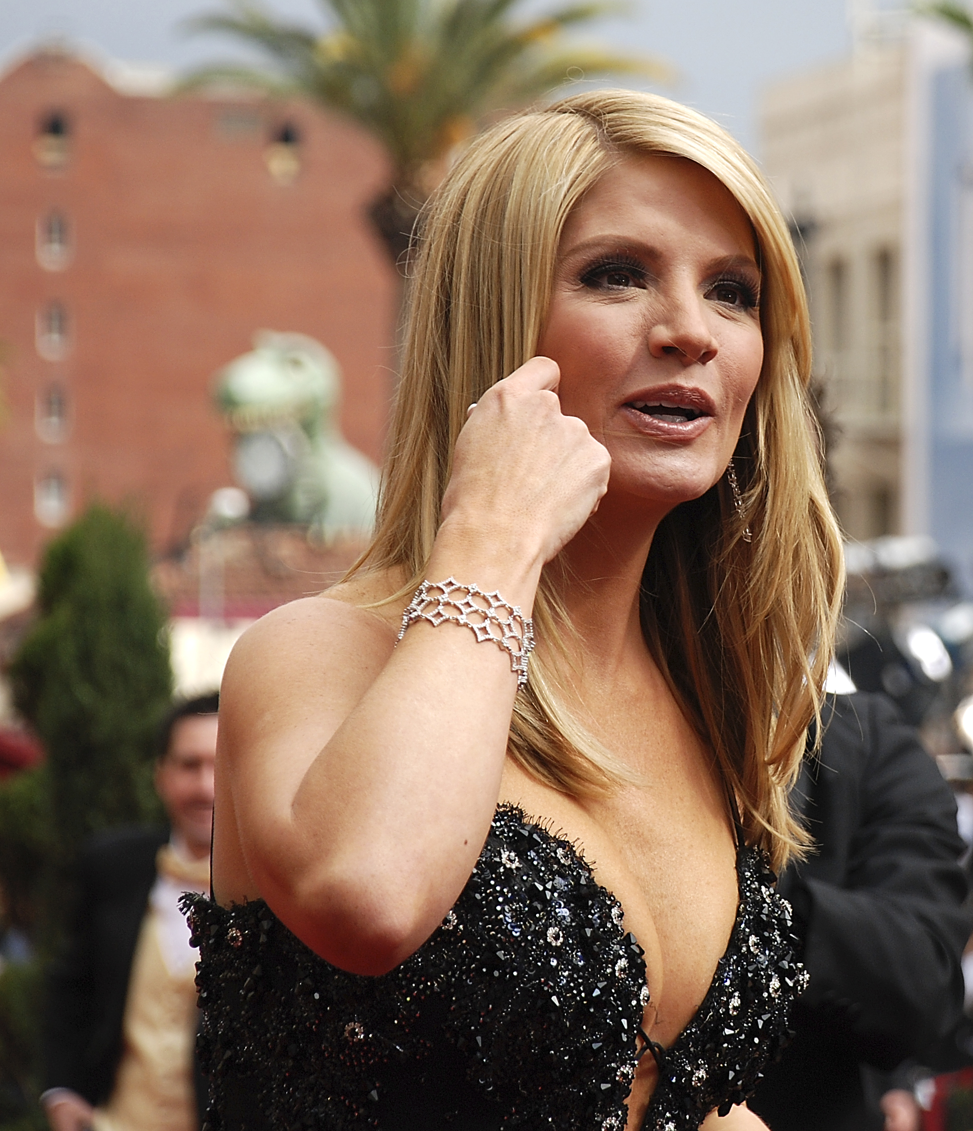 TV presenter Dayna Devon at the 2007 Academy Awards.